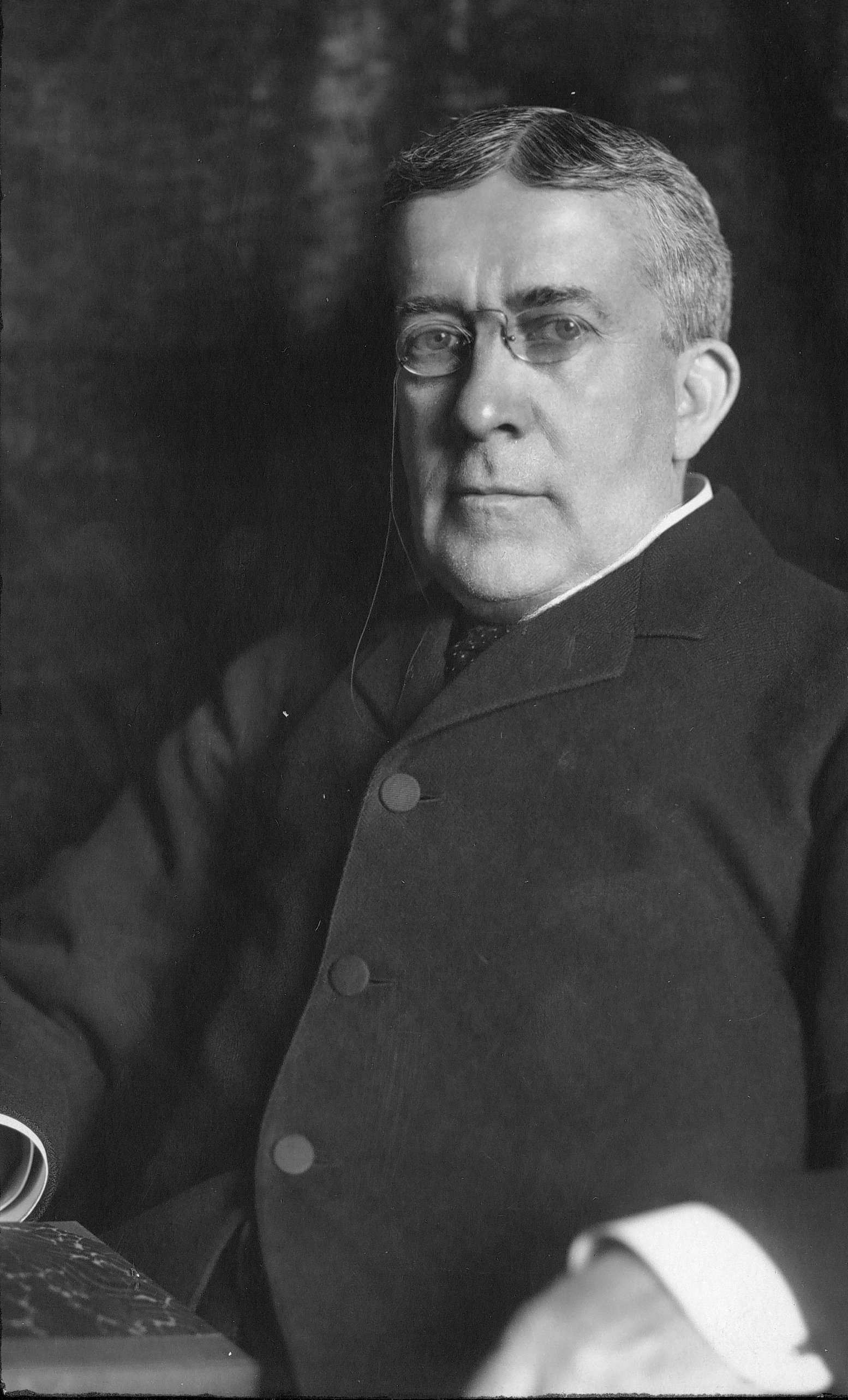 Charles Curtis Harrison (1844-1929), A.B. 1862, LL. D. (hon.) 1911